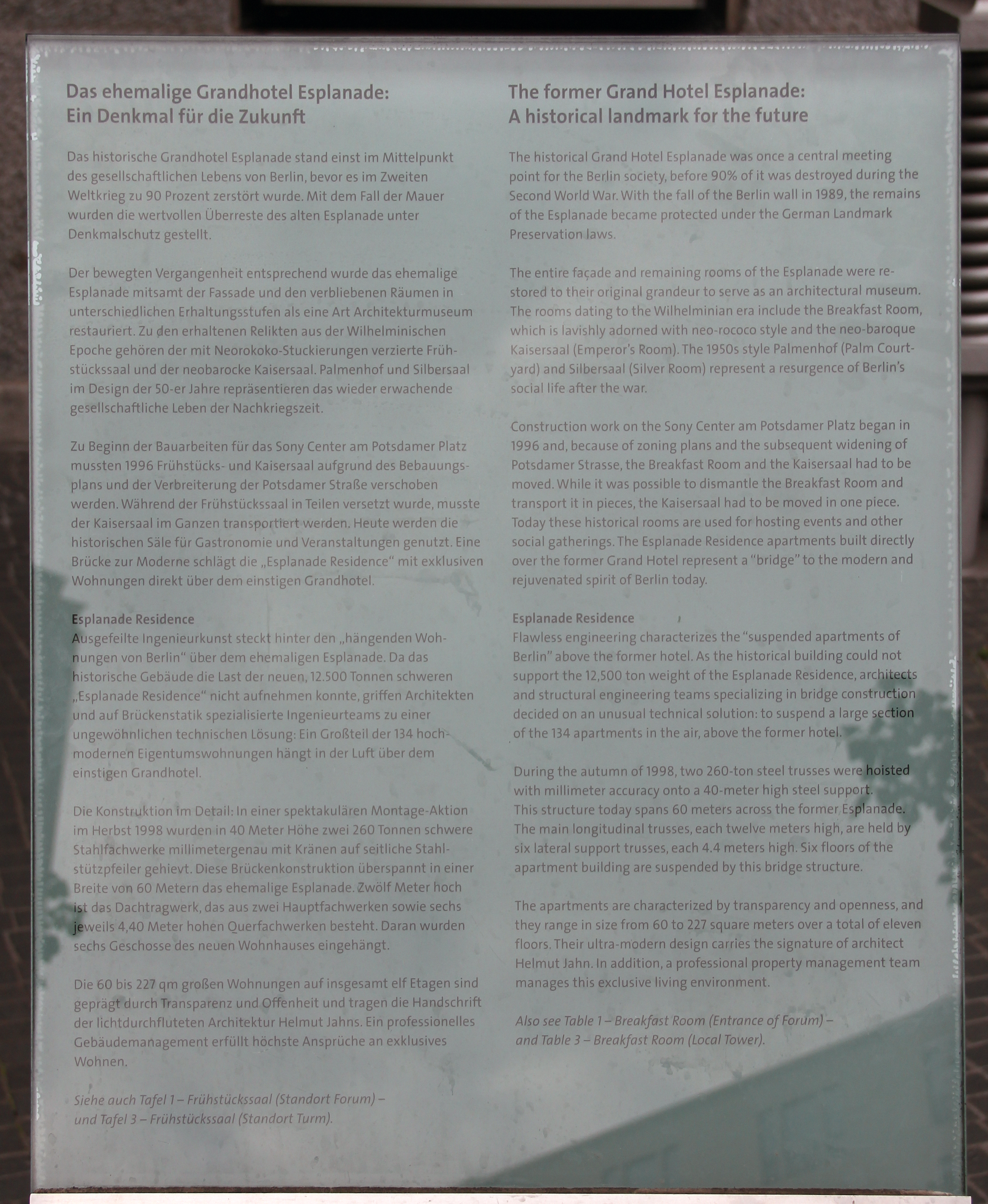 Memorial plaque, Hotel Esplanade, Esplanade Residenz, Bellevuestraße 1, Berlin-Tiergarten, Germany